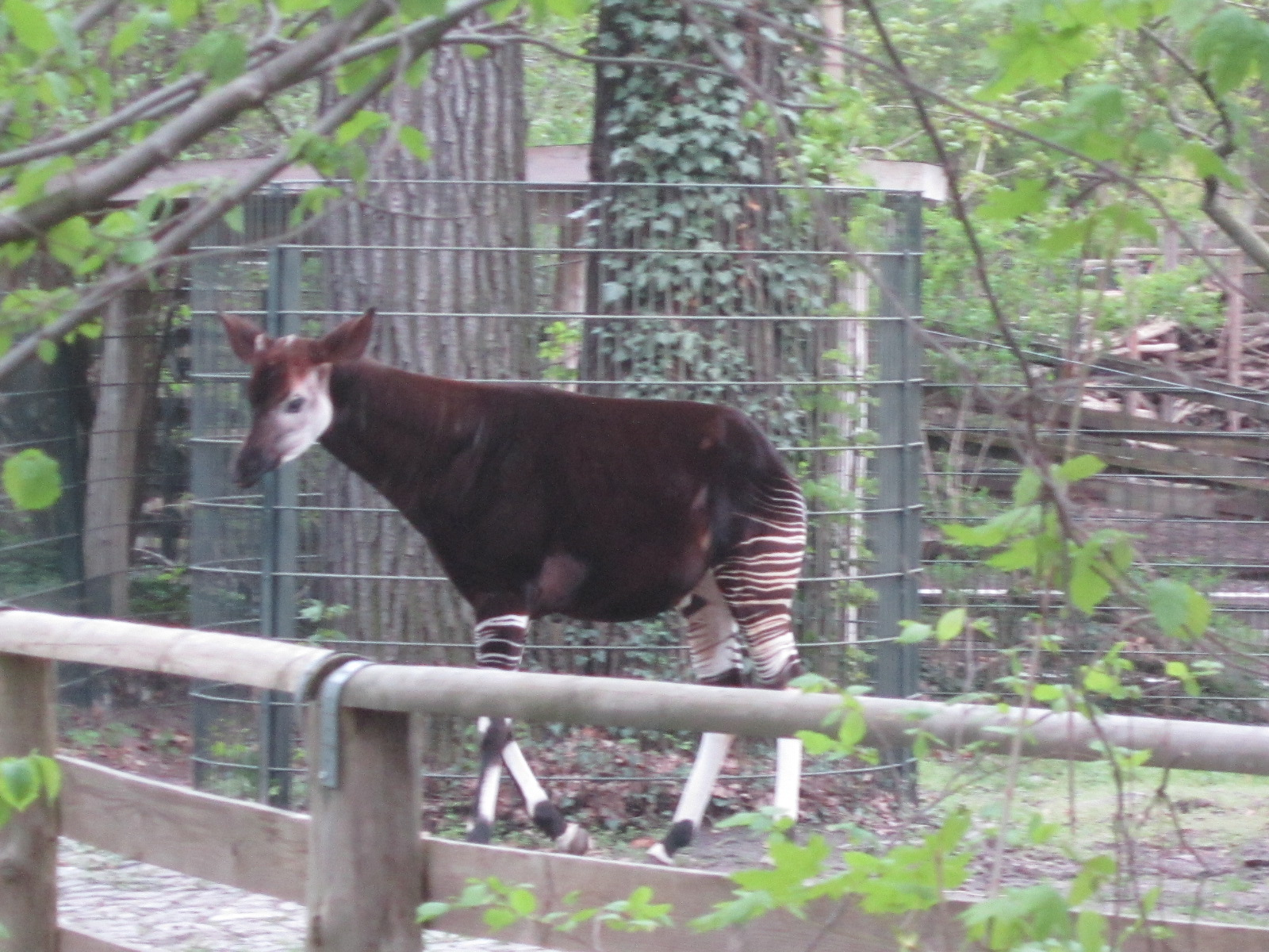 Okapi in Berlin Zoo